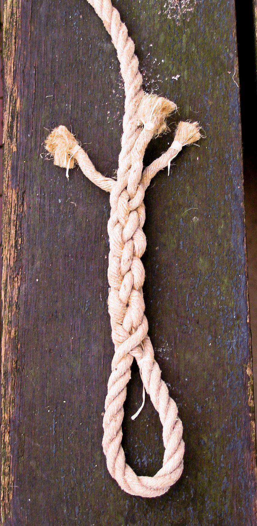 Eye splice finished